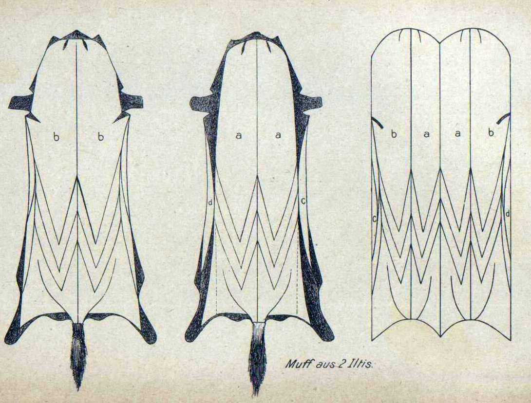 Graphics for Furriers (cutting) Muff aus 2 Iltis